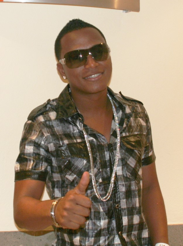 Photo taken in Televisa San Angel while Eddy Lover was promoting "No He Dejado de Extrañarte"